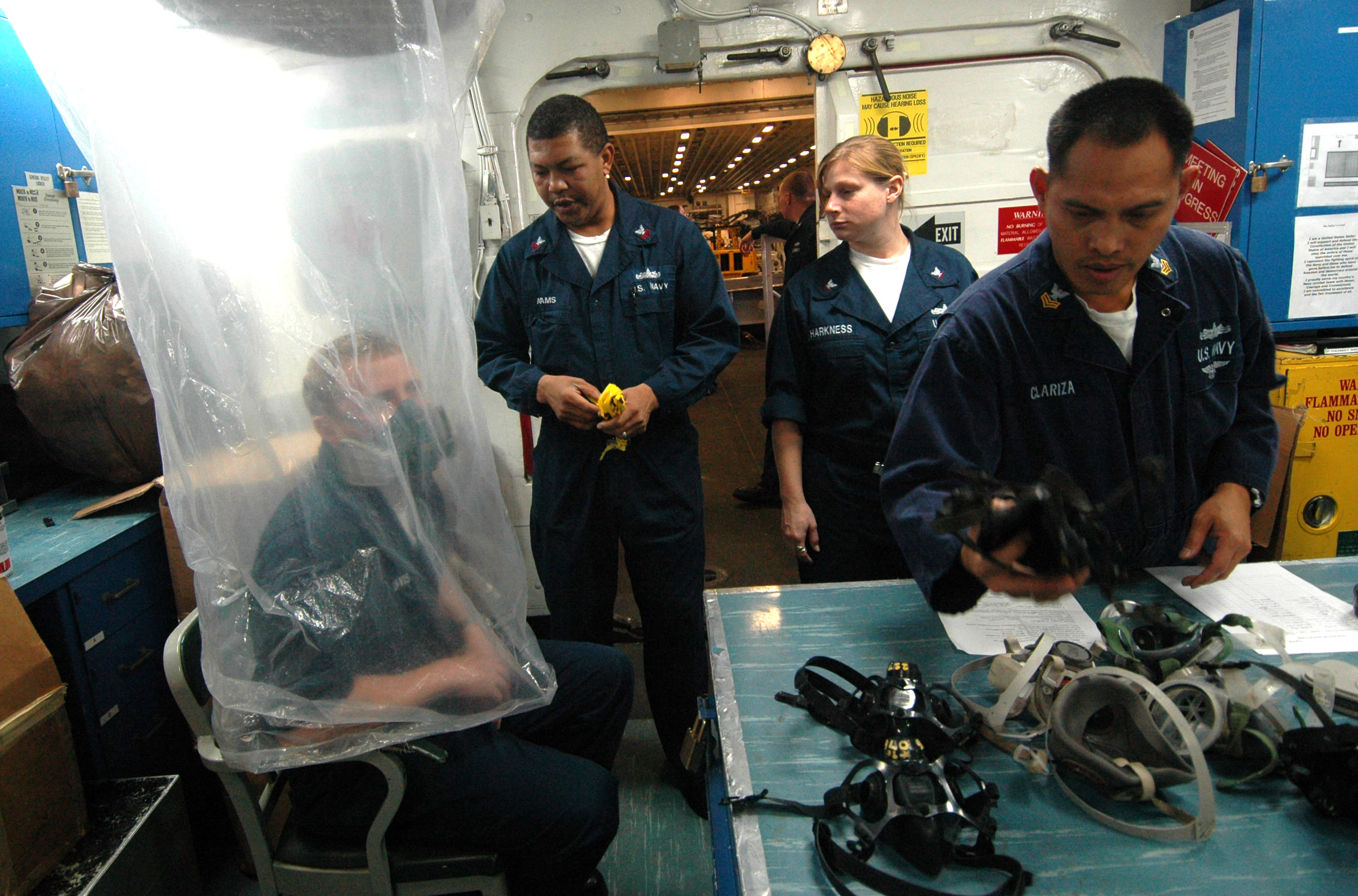 Persian Gulf (Dec. 20, 2006) – The Safety Department uses a plastic bag to conduct respirator fit testing aboard the amphibious assault ship USS Boxer (LHD 4). The Boxer amphibious strike group (ESG) is on a regularly scheduled deployment currently operating in support of Maritime Security Operations and the global war on terrorism. U.S. Navy photo by Mass Communication Specialist 2nd Class James F. Bartels (RELEASED)